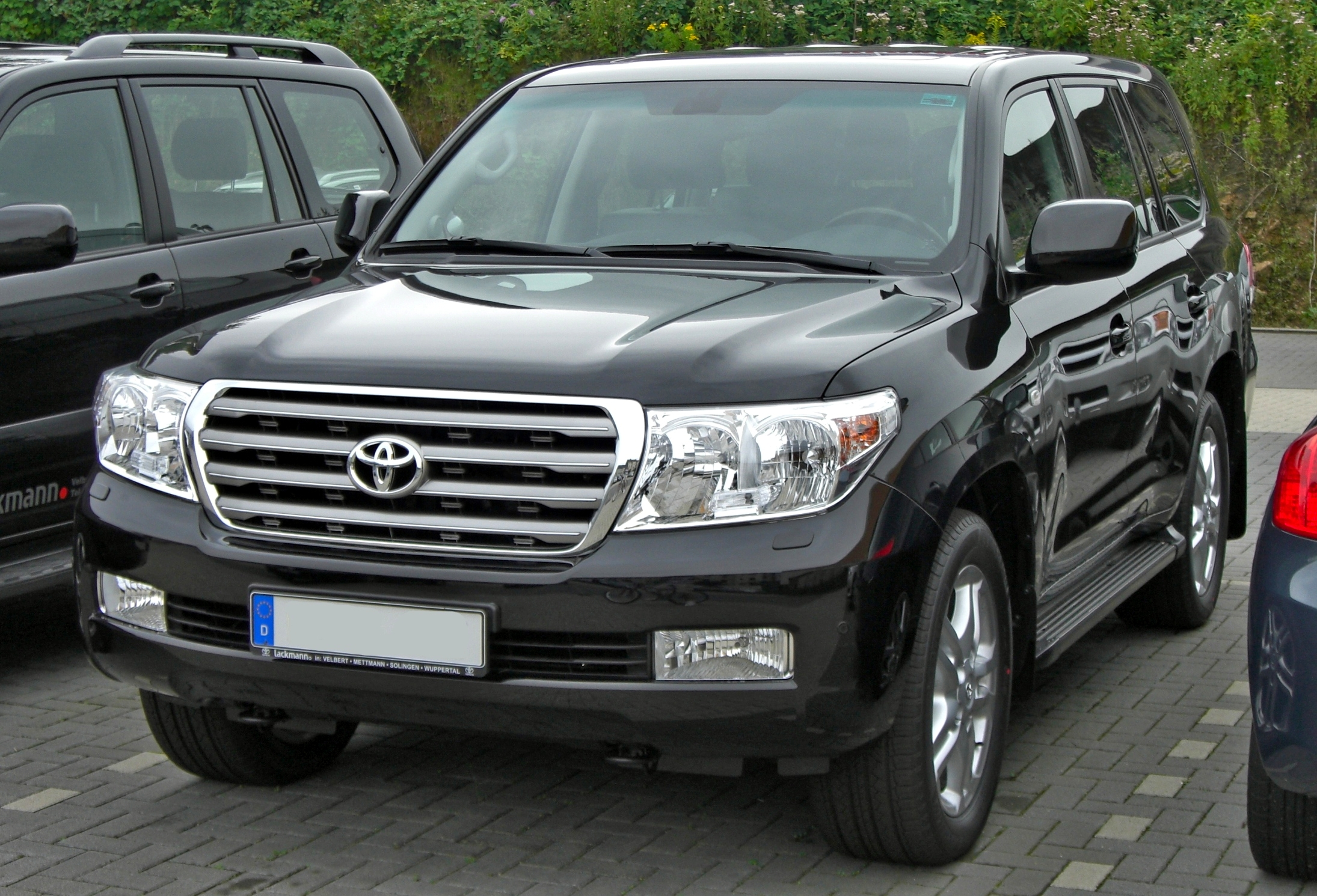 Toyota Land Cruiser 200